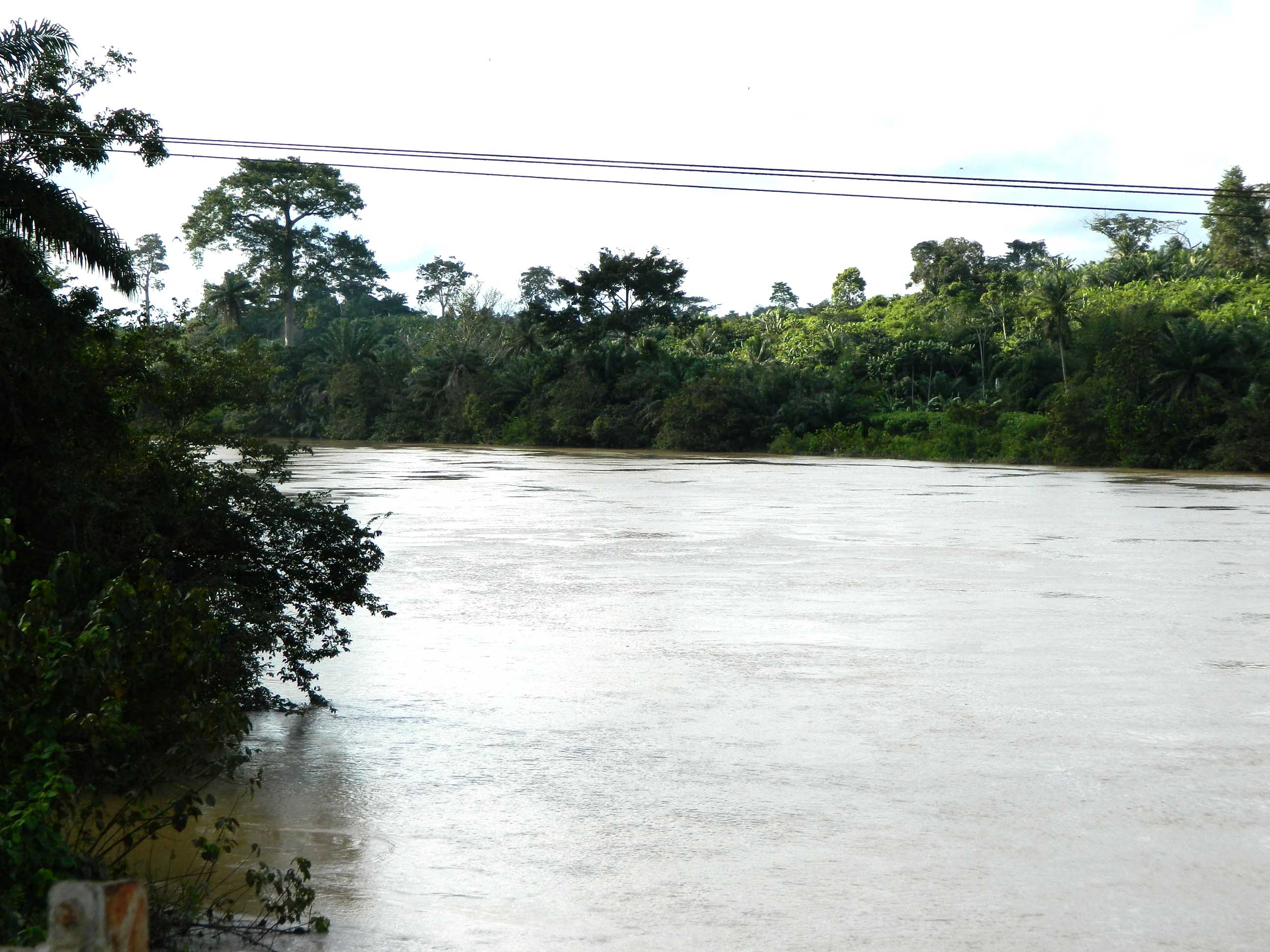 Pra river is a river in Ghana, the eastern most and the largest of the three main rivers that drain the area south of the Volta divide.